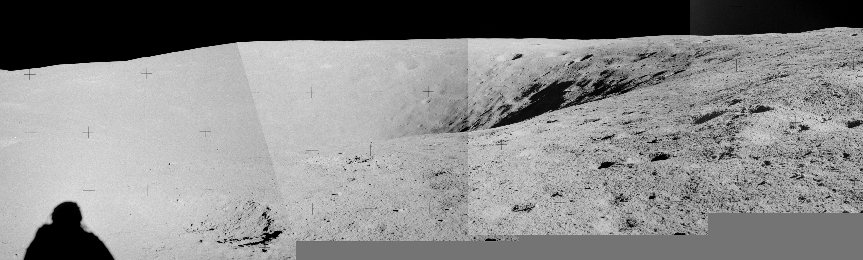 Flag, Descartes Highlands, 1.5 km west of Apollo 16 landing site, and viewed facing northwest during EVA 1. Photographs by astronaut Charles Duke.